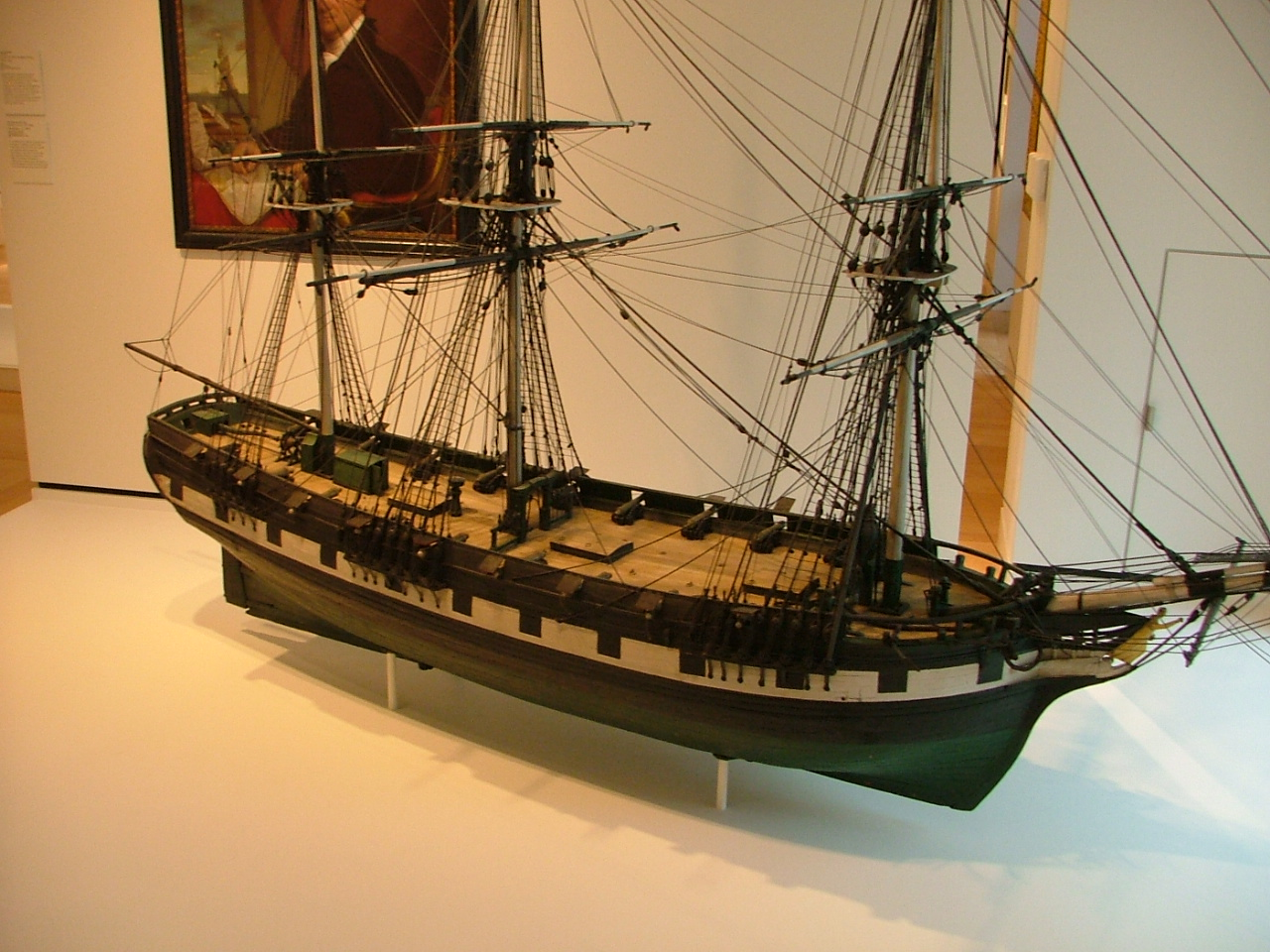 Model of Tall ship "The Friendship"of Salem, with cannon on deck 7.06. 2010 Peabody-Essex Museum